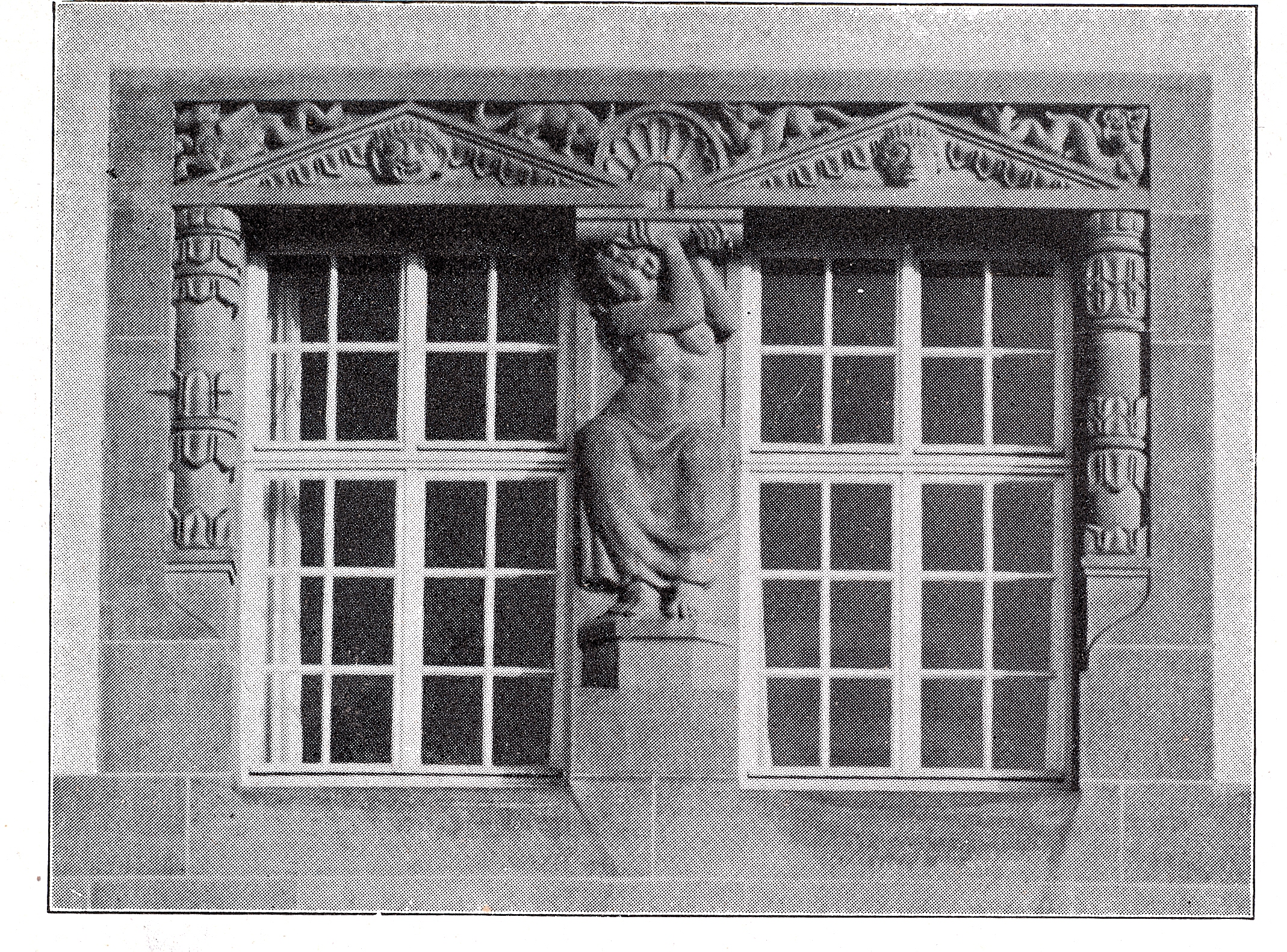 Heilbronn, Altes Theater, Frontfenster. Quelle - Hugo Licht, Das Stadttheater in Heilbronn, (Sonderdruck o. Jg. der Zeitschrift für Architektur und Bauwesen - Der Profanbau), Verlag J. J. Arnd, Leipzig 1913.jpg